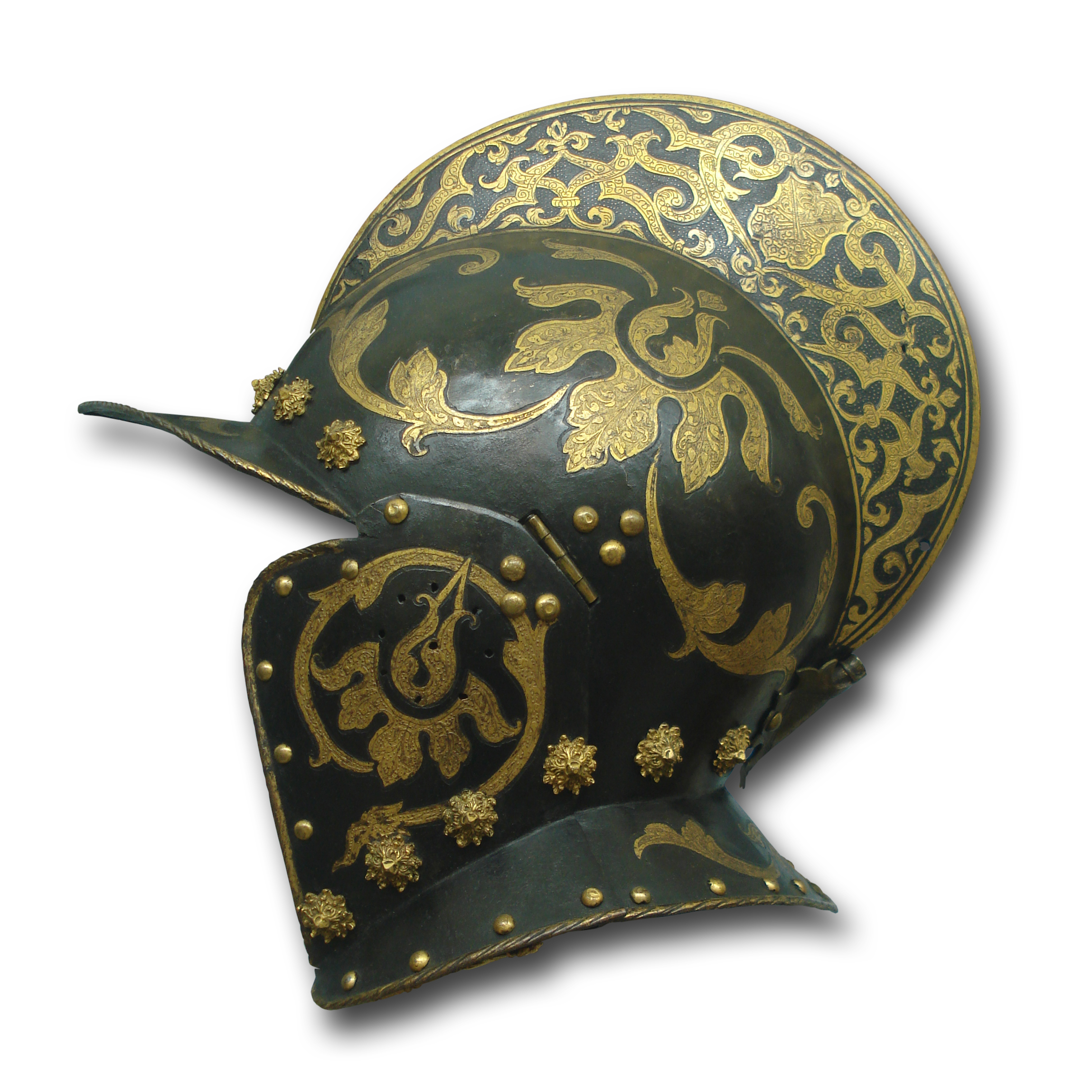 Burgonet - steel, etched, gilt and painted, gilt brass, fabric. Germany, Augsberg, c. 1575-1600. In the collection of the Metropolitan Museum of Art.